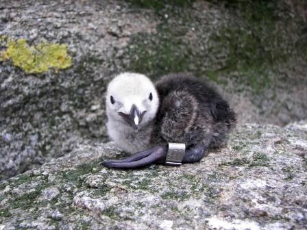 At Gannet Island Labrador, Canada